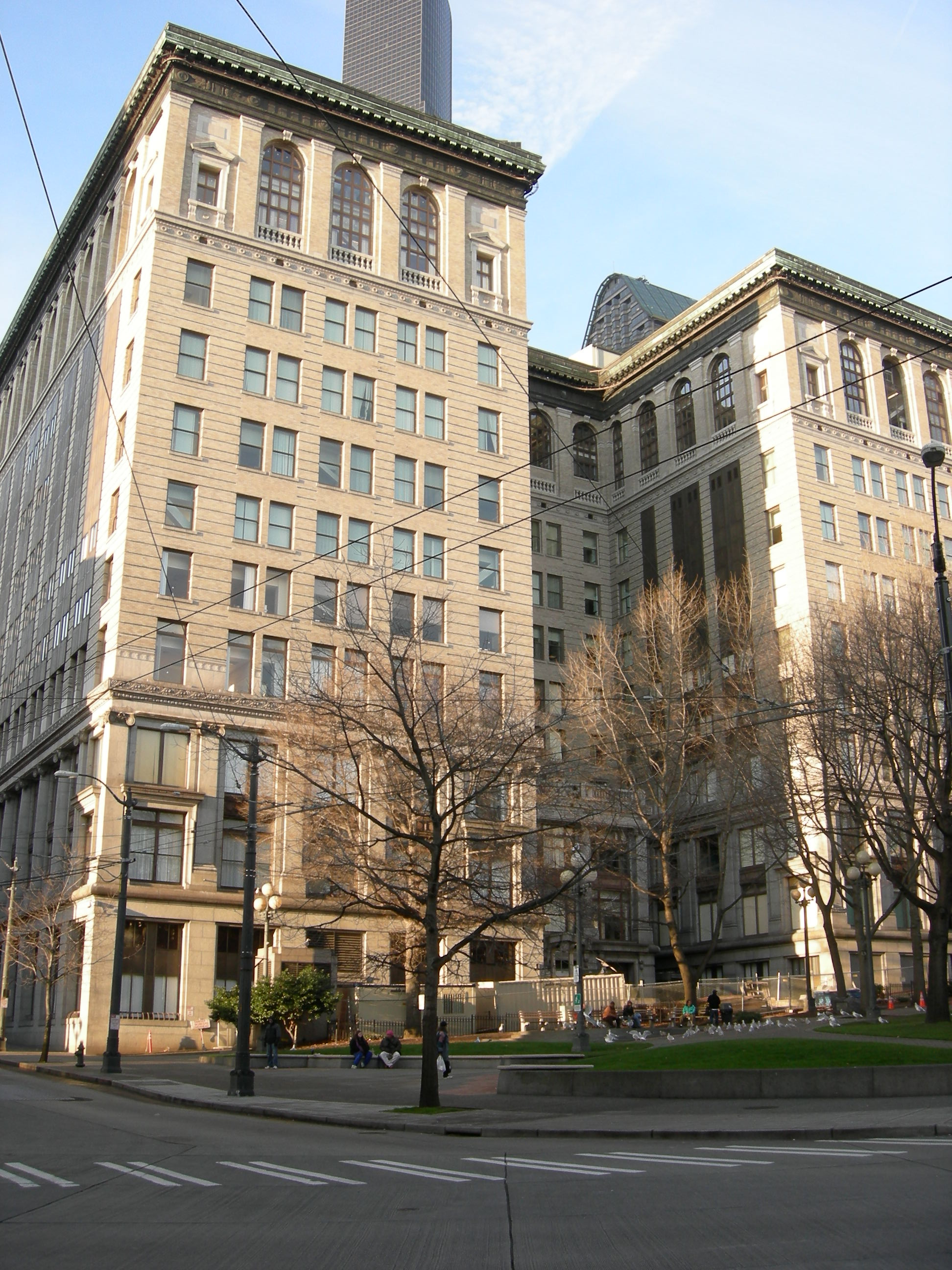 City Hall Park & King County Courthouse, Seattle, Washington, USA.